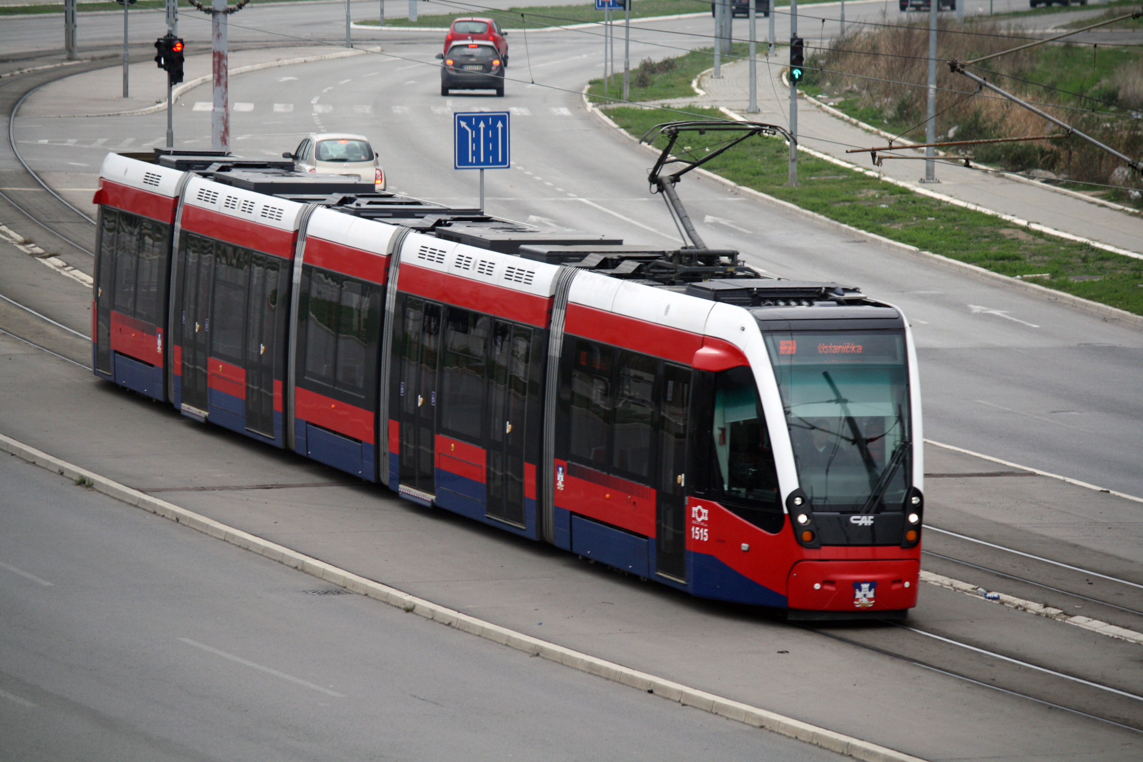 CAF Urbos 3 tram of GSP Beograd.